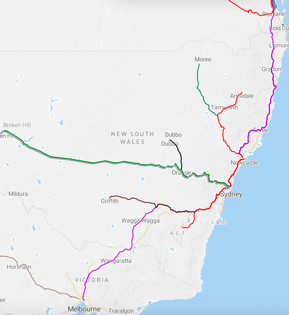 New South Wales TrainLink Intercity Network